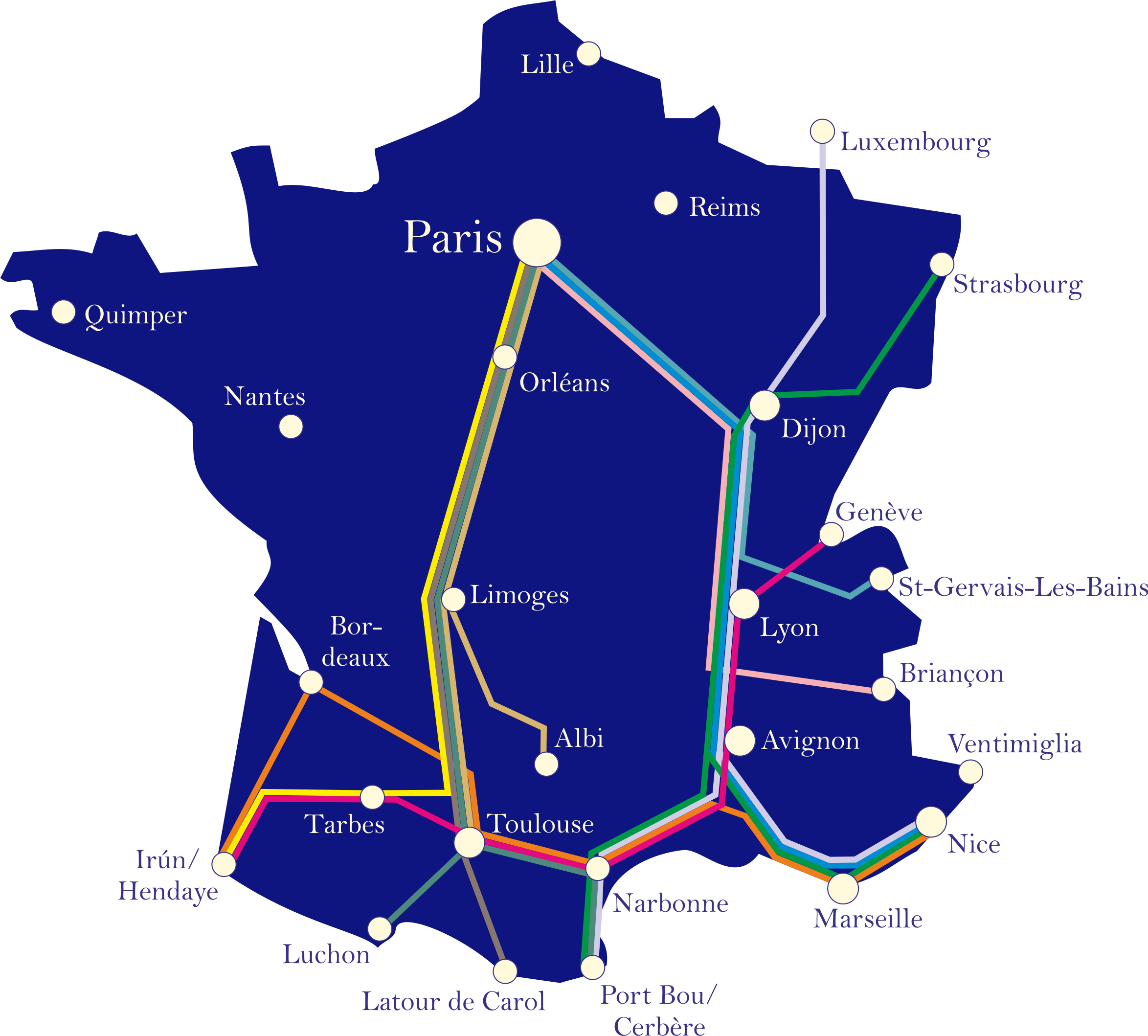 Map of French Intercités de Nuit (formerly Corail Lunéa), timetable 2012. Earlier version was File:Corail Lunea.png.